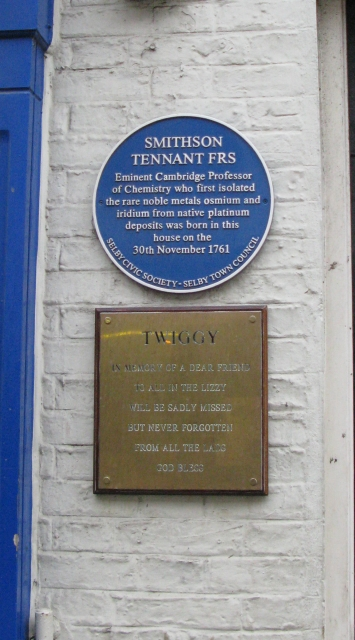 Elizabethan, Finkle Street. Plaque to Smithson Tennant F.R.S, born 1761. Put up by Selby Civic Society and Selby Town Council